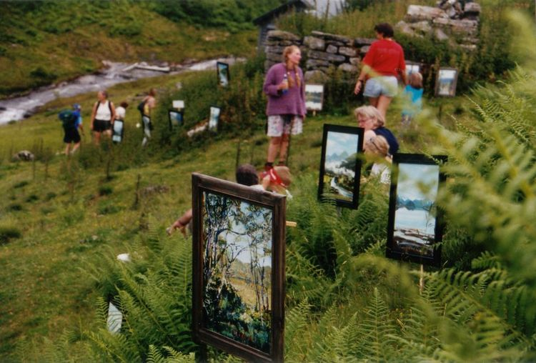 Outdoor exhibition at Norsk Fjellfestival, 2002, at Loftskaret, in Isfjorden, Norway.